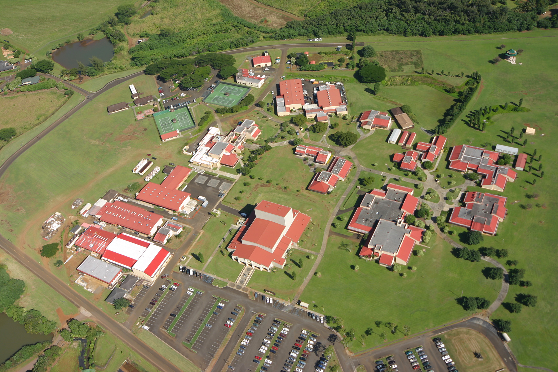 Aerial view of Kauai Community College in Puhi (near Lihue), Island of Kauai, Hawaii. Taken on December 14, 2004 by Christopher P. Becker .